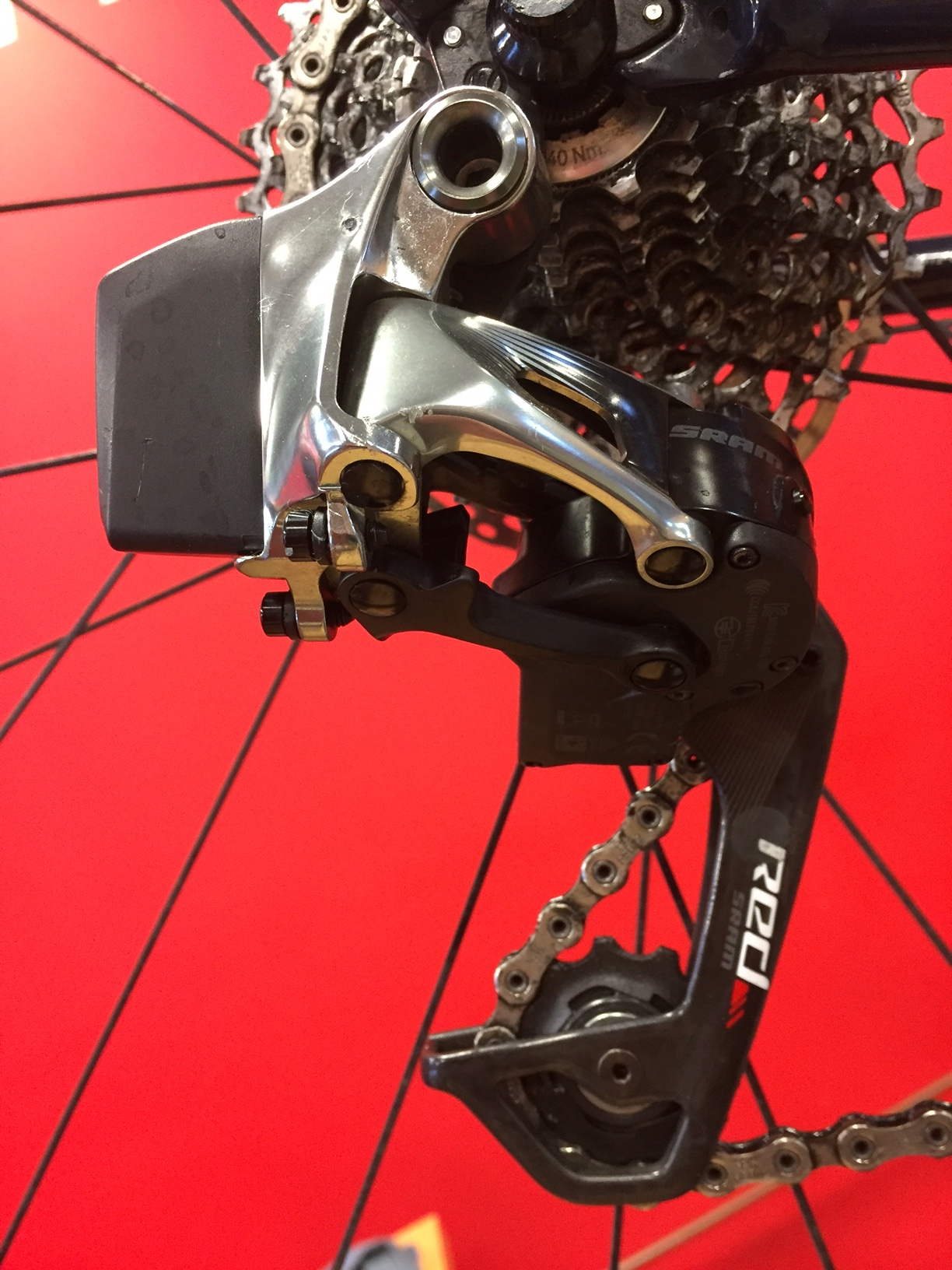 2017 SRAM RED eTap WiFLi Rear Derailleur